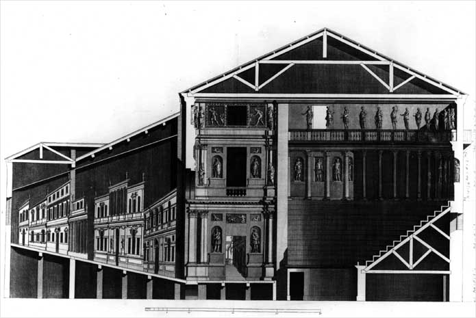 Teatro Olimpico in Vicenza by Andrea Palladio. Drawing by Ottavio Bertotti Scamozzi, 1776.